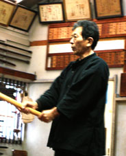 Soke Yoshimitsu Katsuse, from Suio Ryu